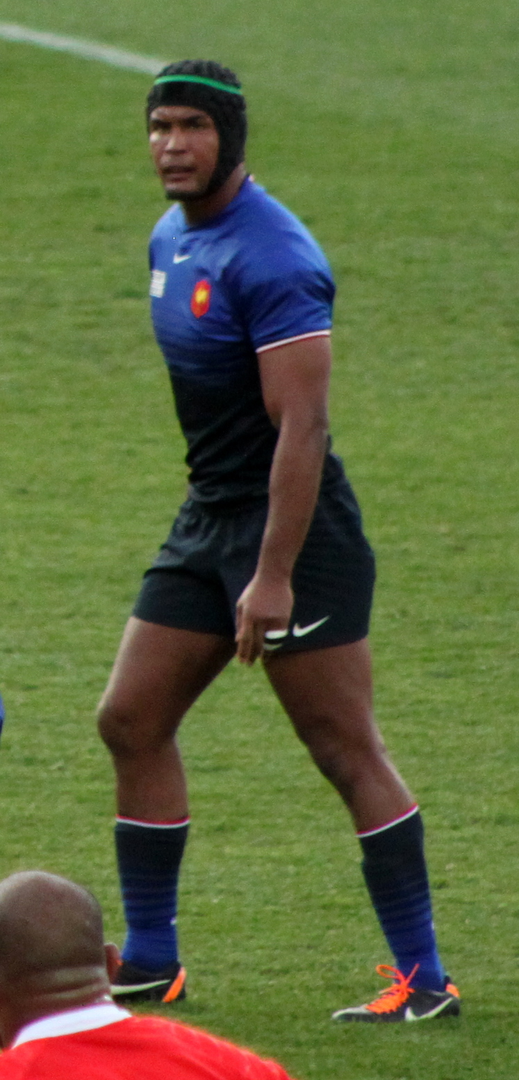 French rugby union player Thierry Dusautoir during 2011 Rugby World Cup match against Tonga.